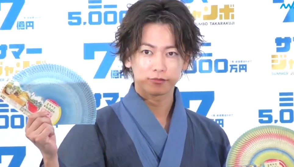 Satoh Takeru in 2019 at a Summer Jumbo Lottery event